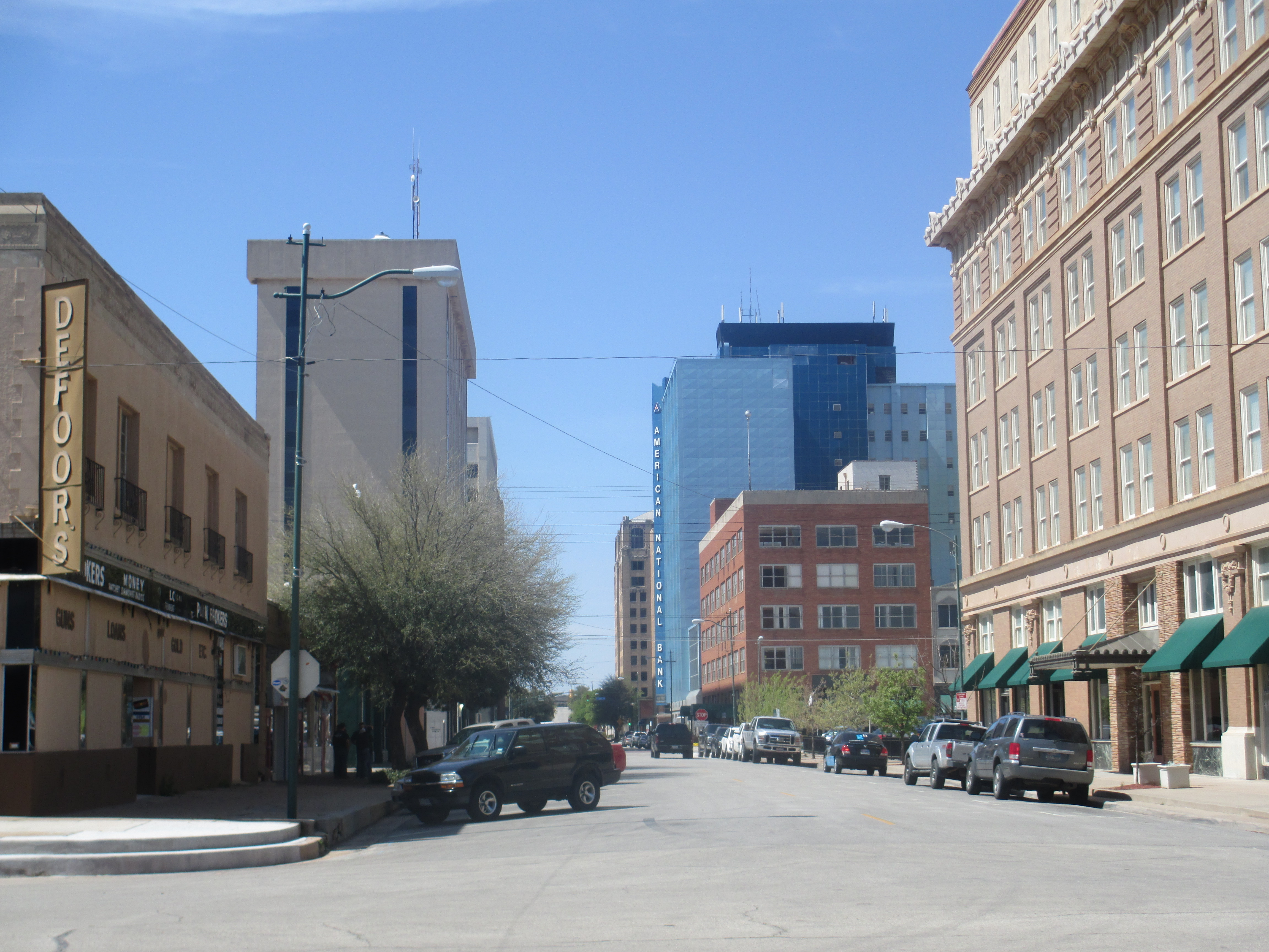 I took photo of downtown block in Wichita Falls with Holt Hotel on the right, American Bank building in the back right, and the original Zales jewelry outlet on the front left. With Canon camera, April 6, 2013. Billy Hathorn (talk) 17:06, 10 April 2013 (UTC)